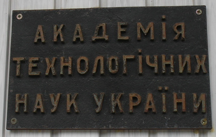 АТН табличка